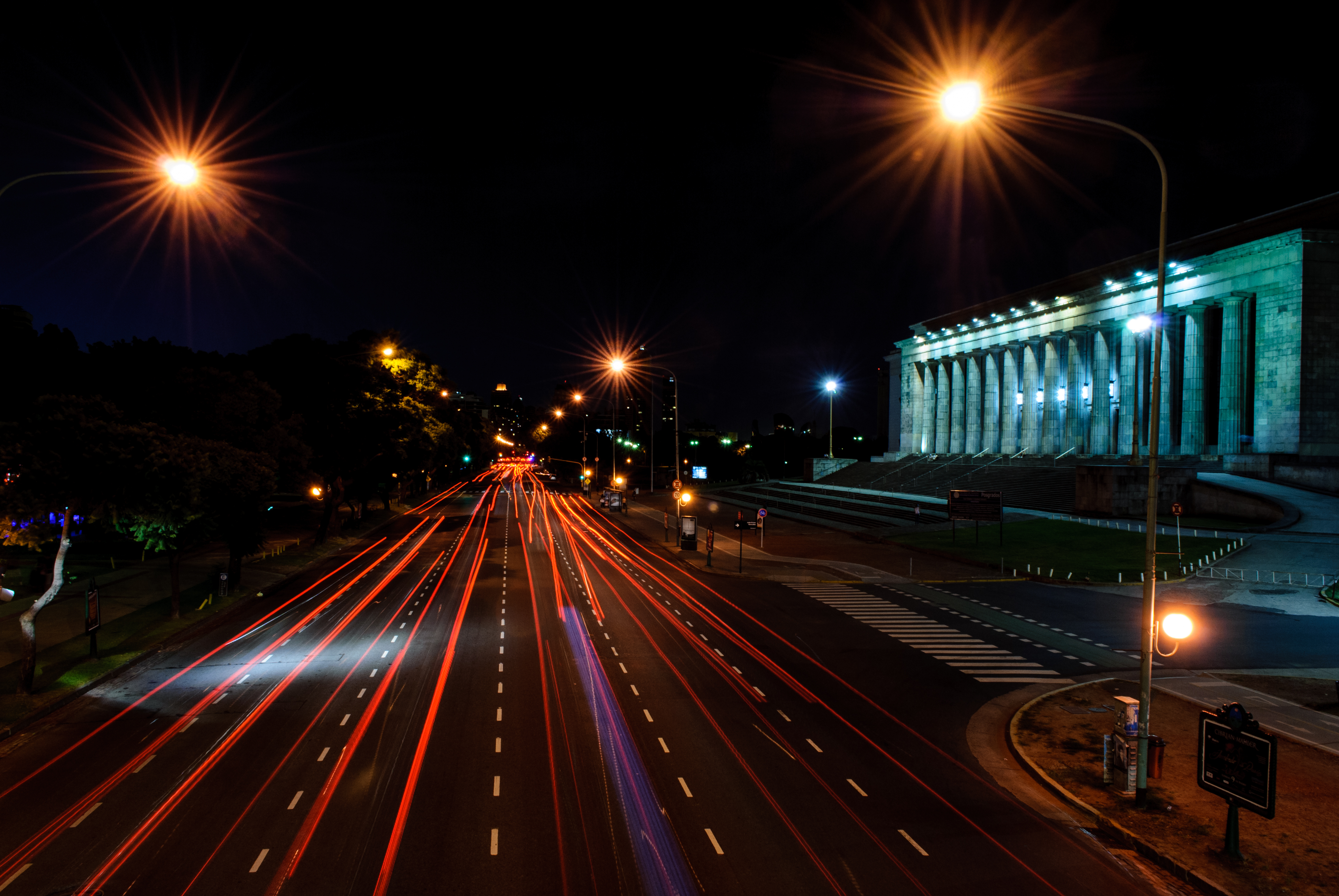 Long exposure night shot of Figueroa Alcorta Avenue and Buenos Aires Law School to the right, in Buenos Aires, Argentina.